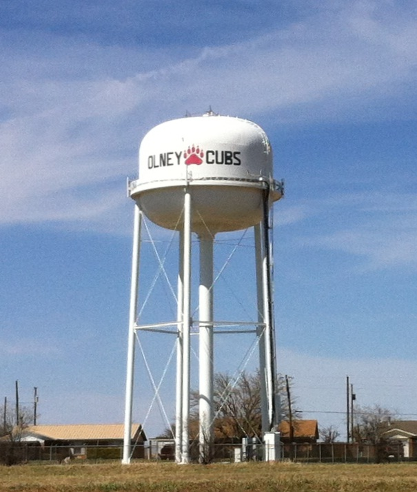 Water towers in smaller Texas communities often show the high school sports mascot.